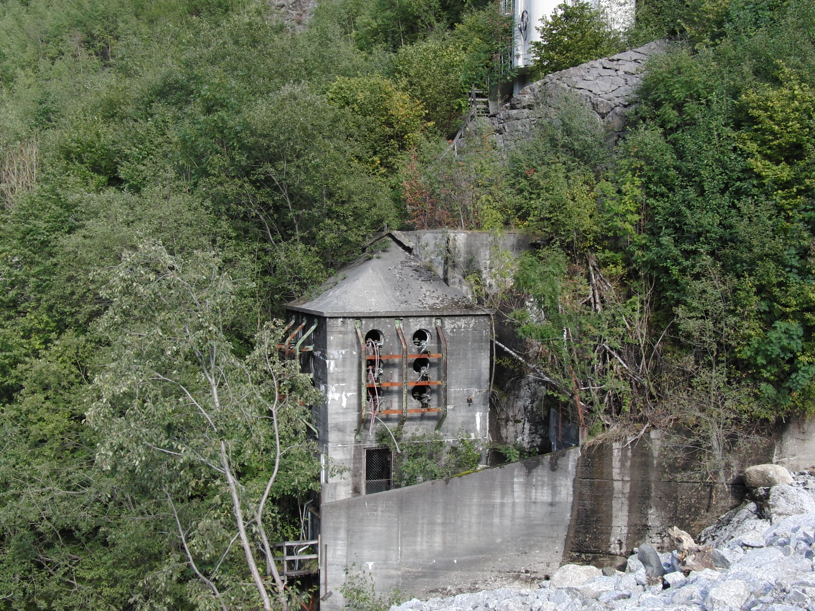 The old transmission line between Tysso 1 power plant in Tyssedal and the factory in Odda. There is a 1200 meter long tunnel with a termination house at each end. The line was built between 1909 and 1913. This is the southern termination.